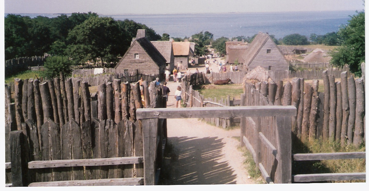 plymouth plantation, u.s.a